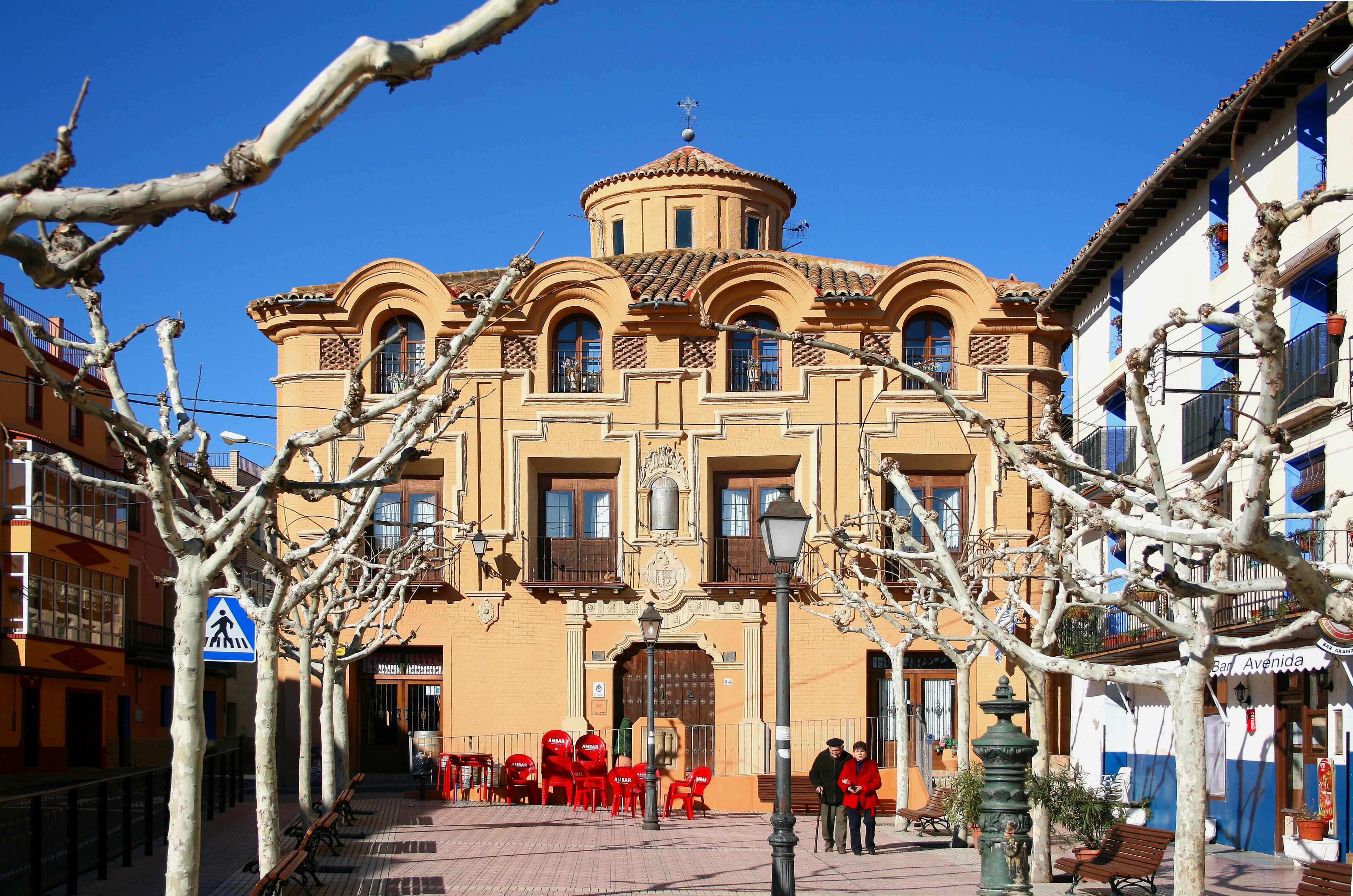 Casa Grande, Villarroya de la Sierra, Spain